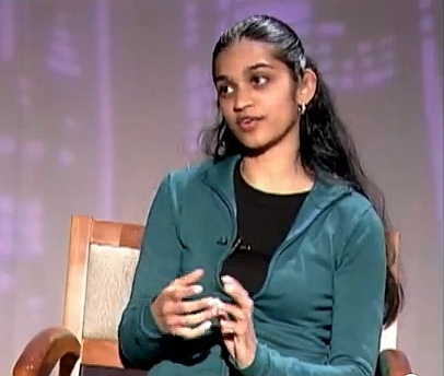 Still photo from an interview with Soanya Ahmad on television in 2010. Photo from the private collection of User:Skol fir.